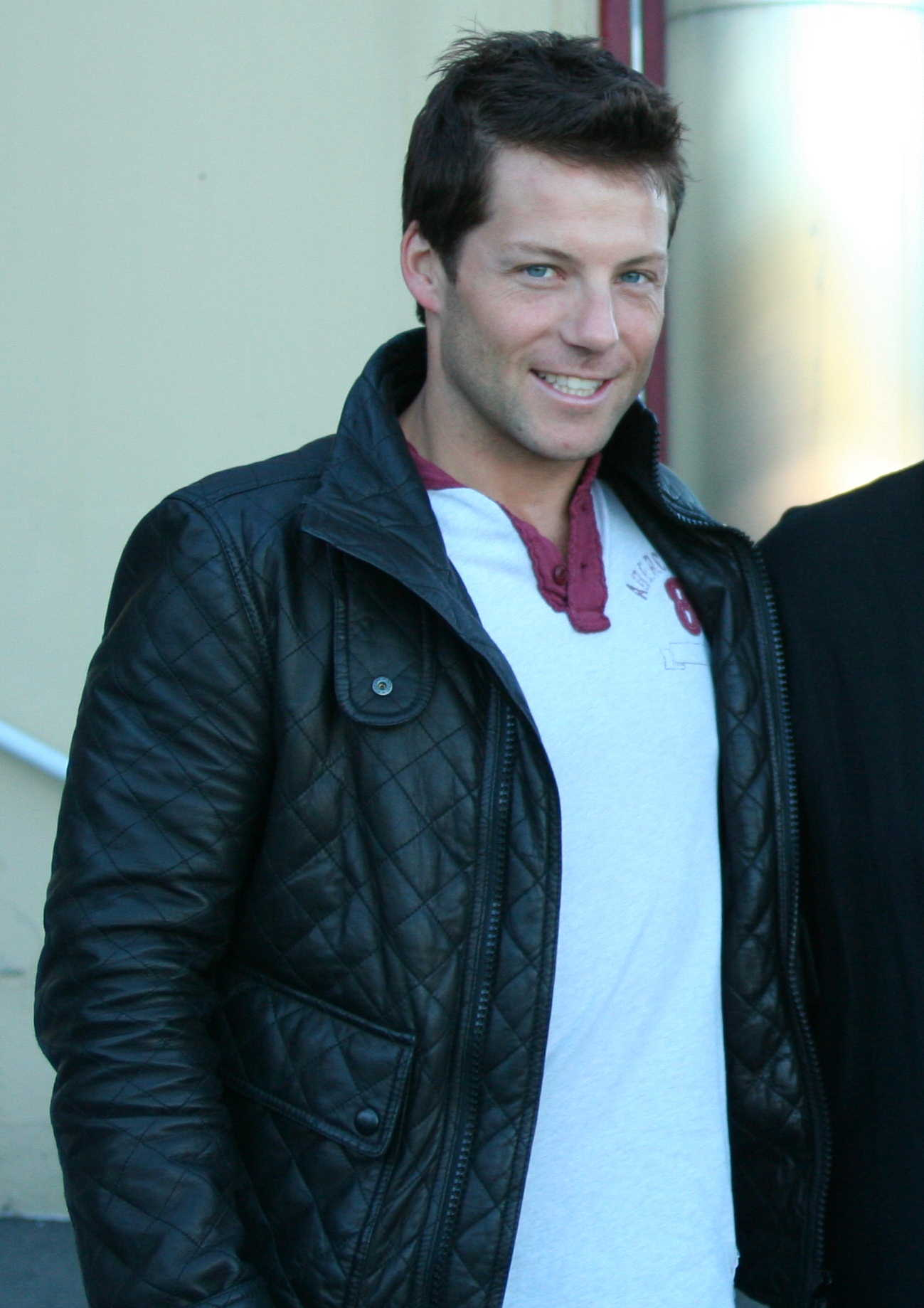 British actor Jamie Bamber.